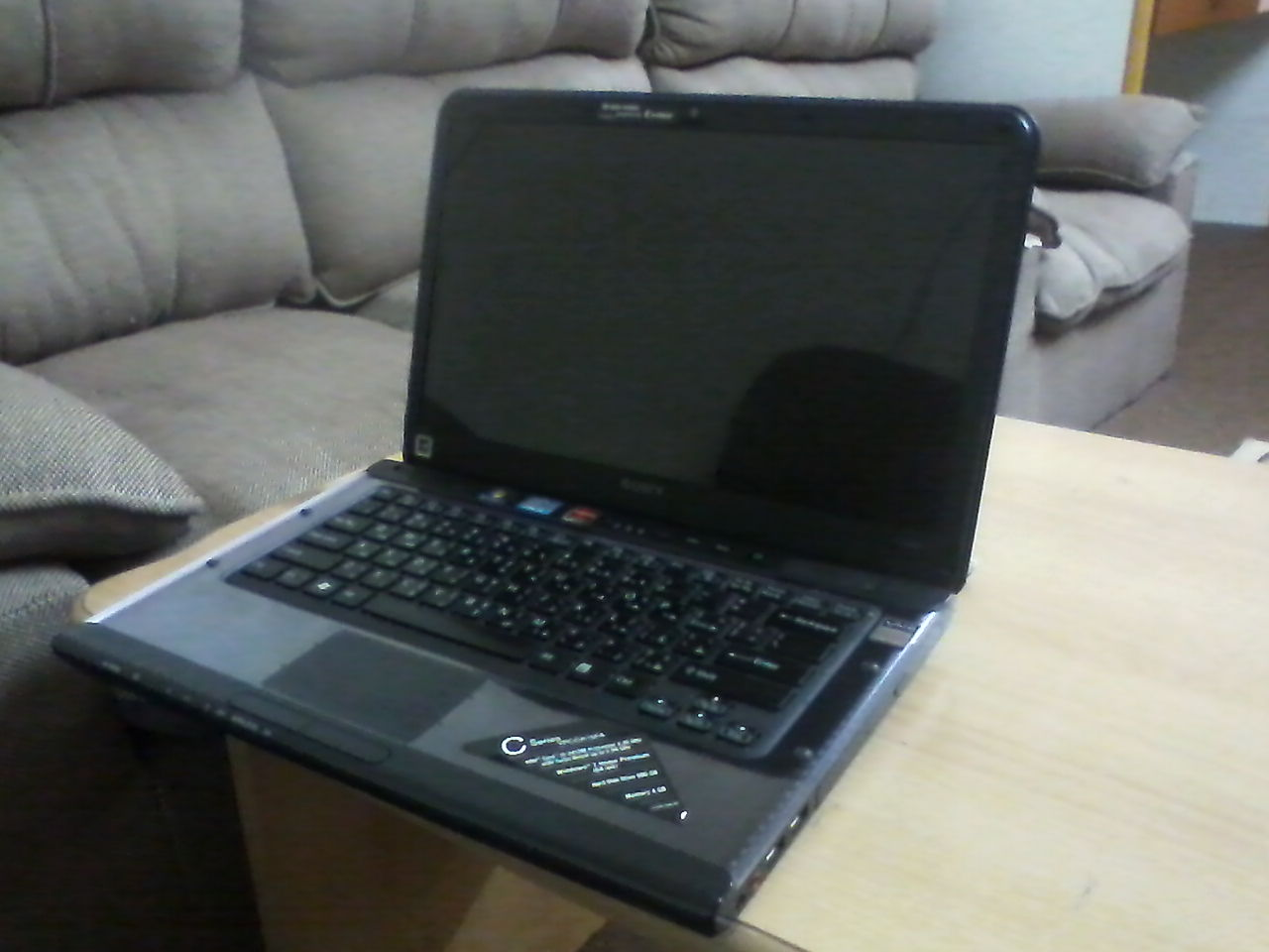 A black Sony Vaio C Series cover open Laptop